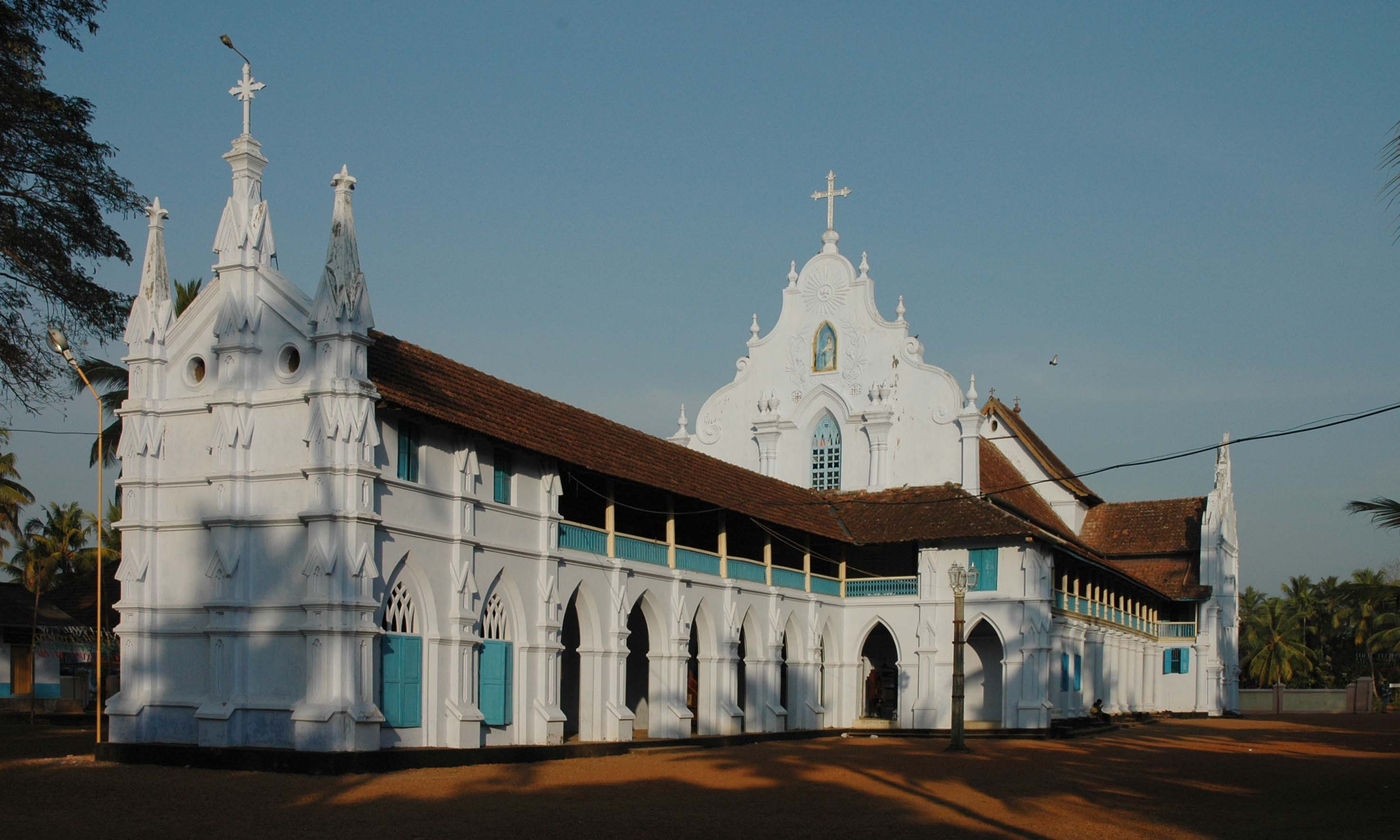 church in Kerala, India